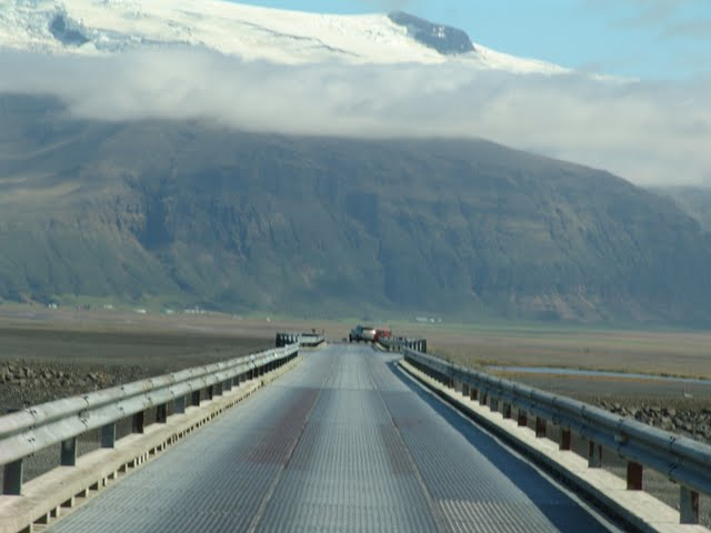 Route 1, Iceland